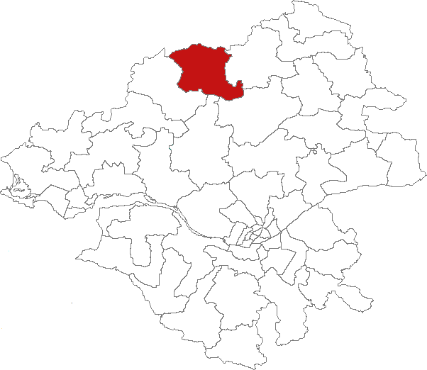 Map of canton of France : Canton de Guémené-Penfao, Loire-Atlantique, France